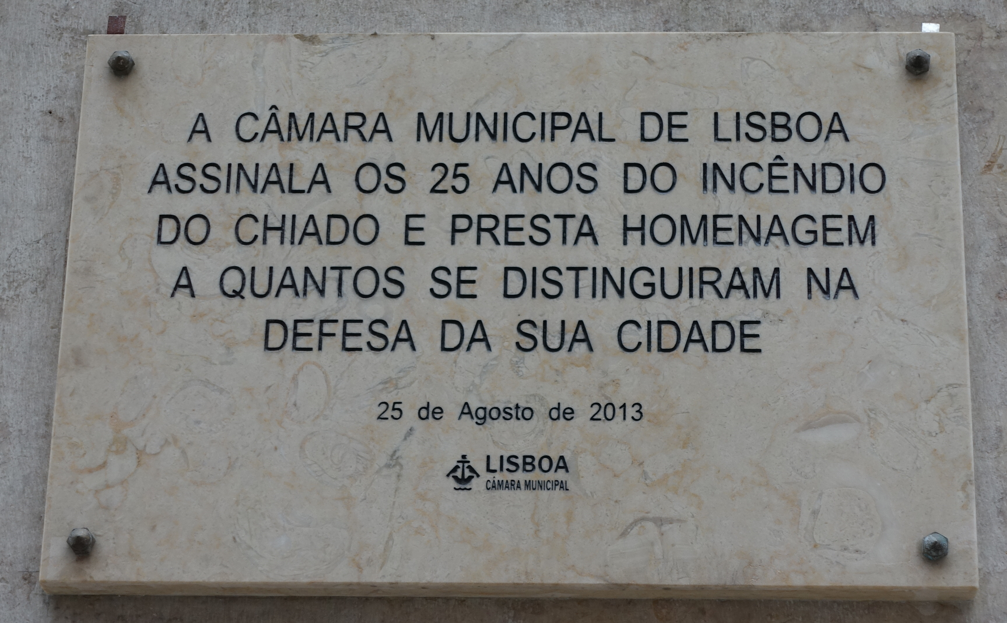 Plaque Fire in Chiado, Lisbon Portugal.